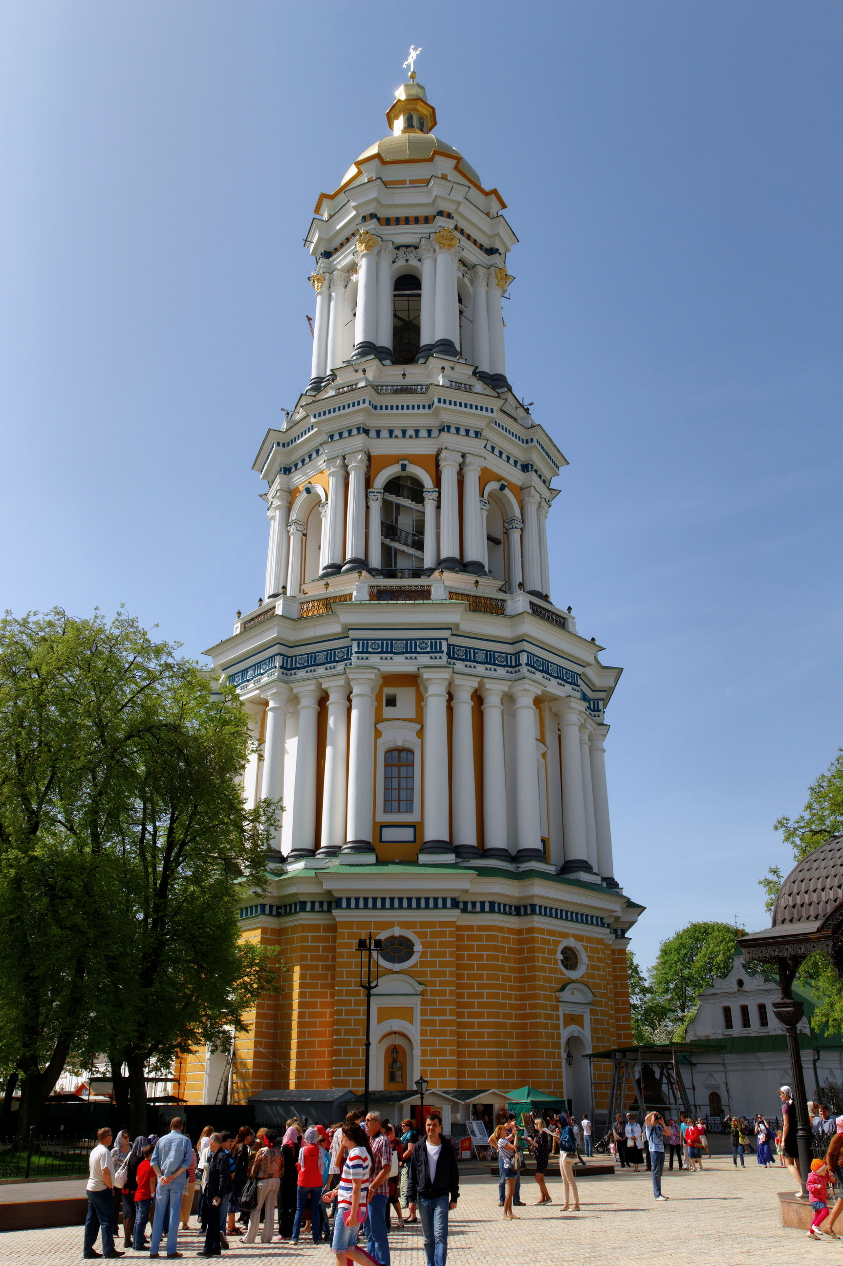 Kiev. Kiev Pechersk Lavra. Great Lavra Bell Tower